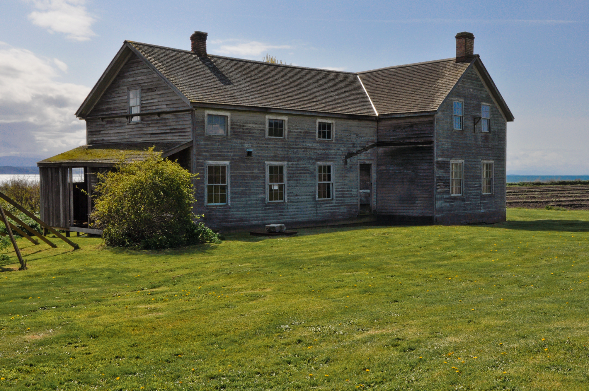 A view of the rear and northeast facade of the Ferry House.